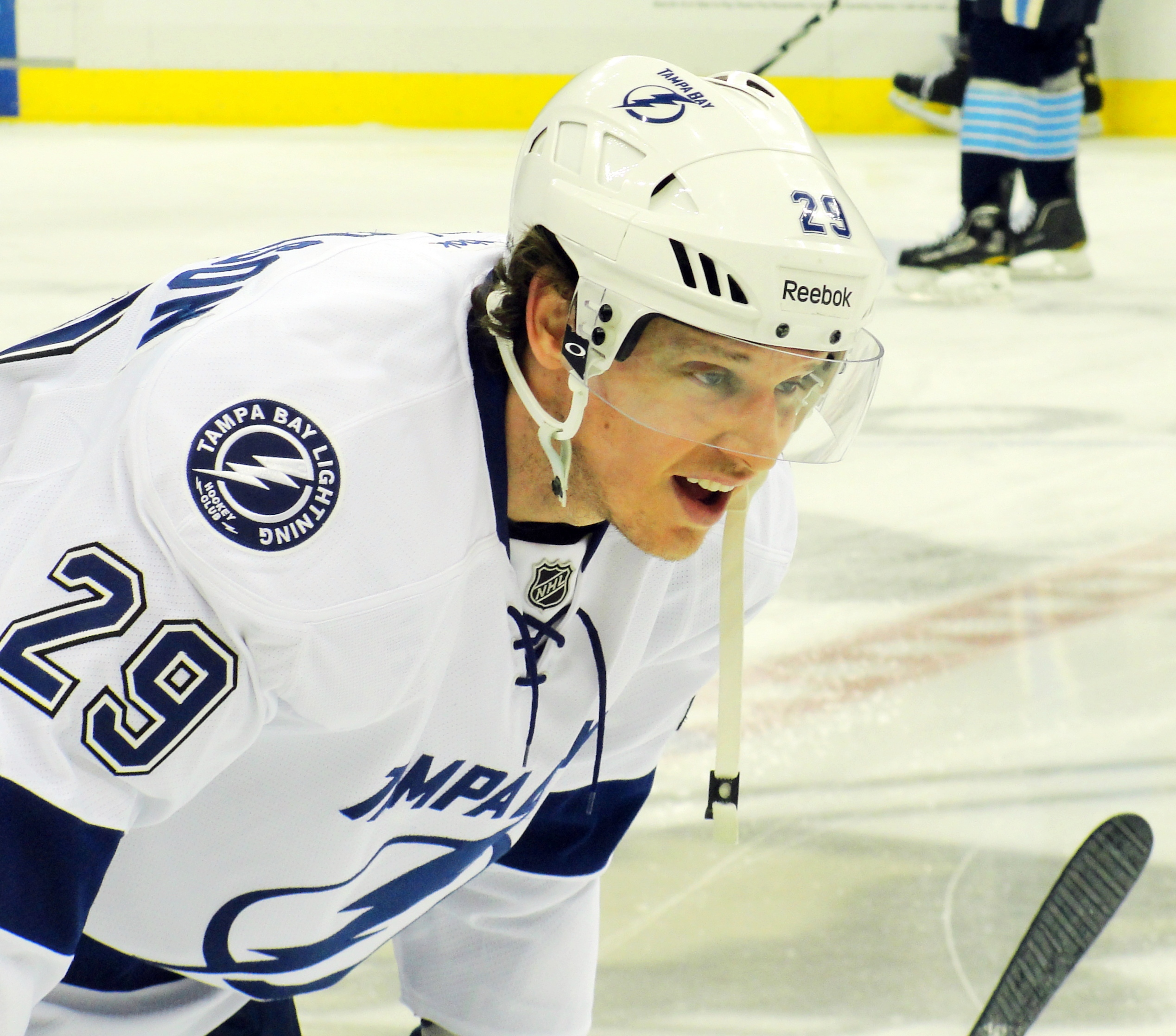 Brendan Mikkelson of the Tampa Bay Lightning during a February 12, 2012 game against the Pittsburgh Penguins at Consol Energy Center in Pittsburgh, PA.